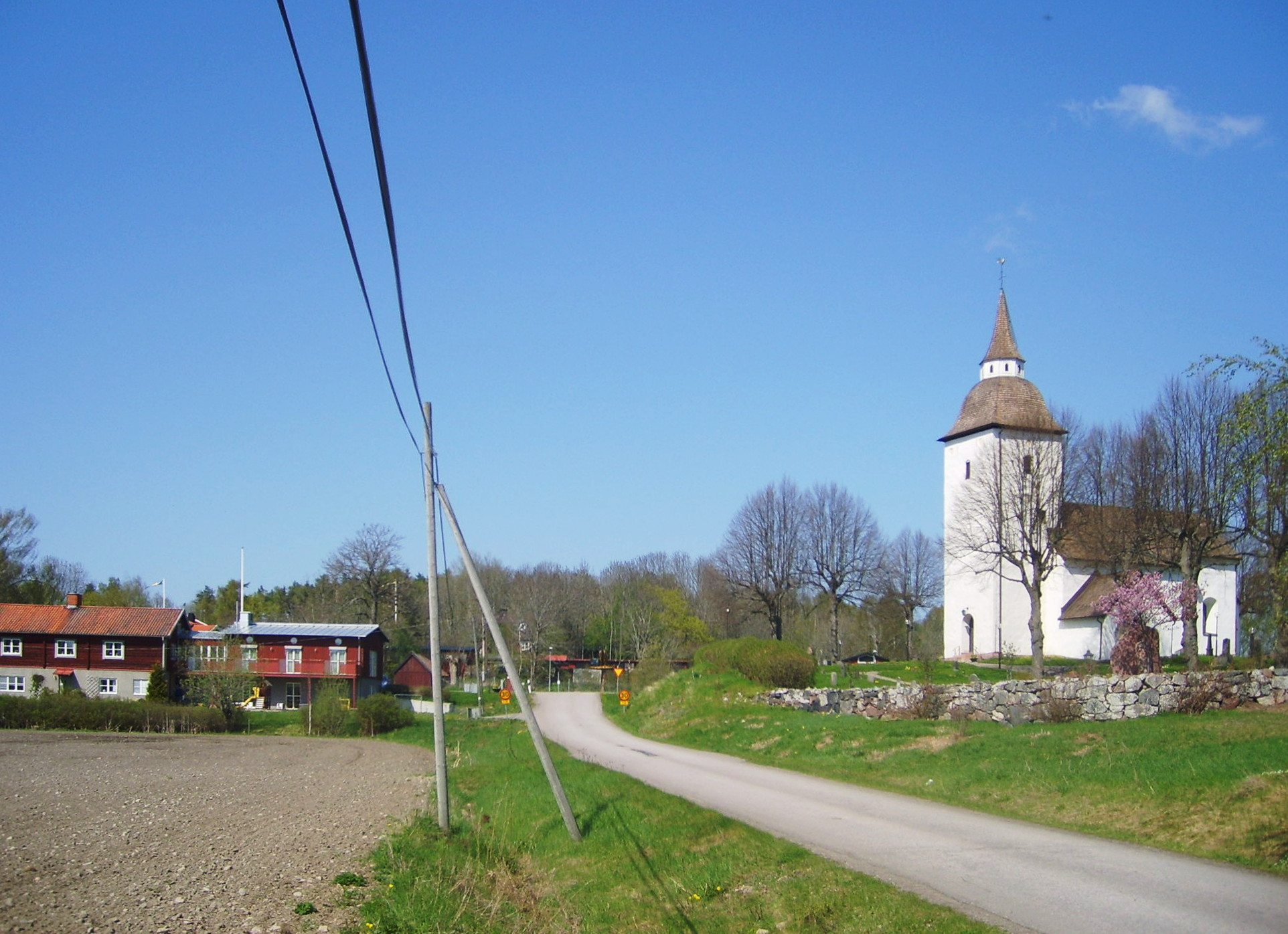 Panorama of Tuna in Sweden, an urban area (tätort) outside Södertälje. A historic church, Ytterenhörna kyrka, dominates on the right.